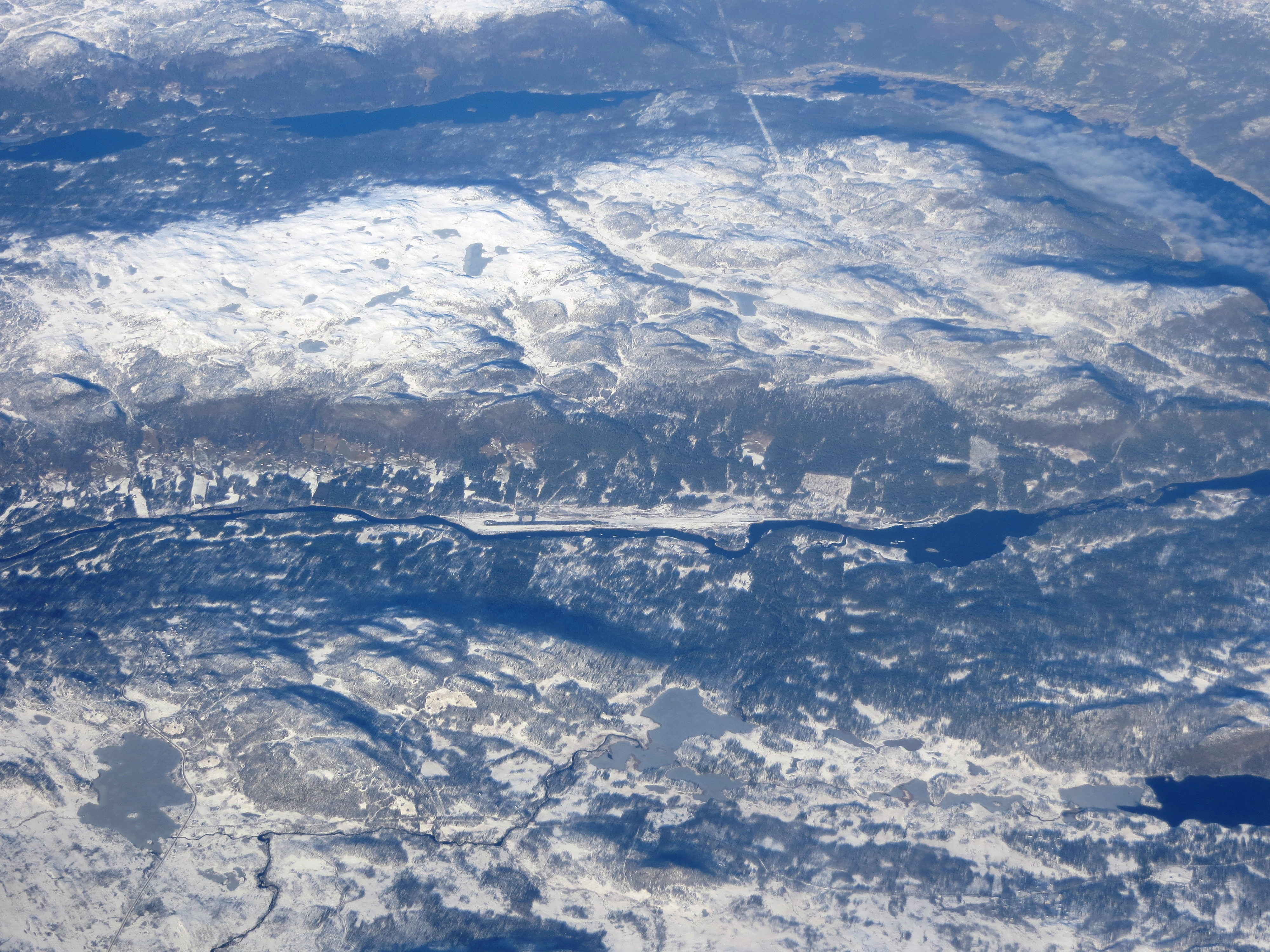 The Dagali area of southern Hol municipality - Buskerud (Norway)